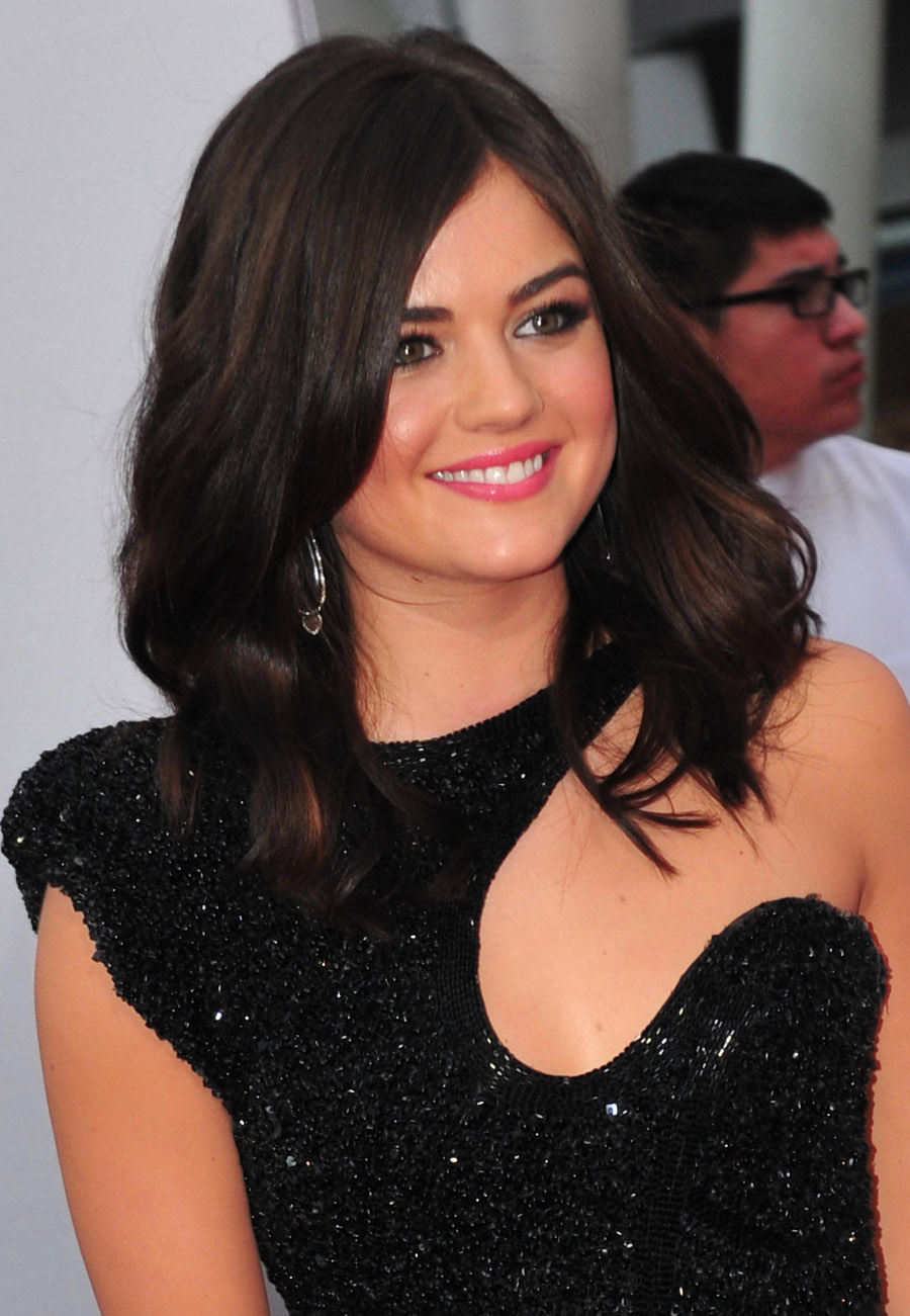 Lucy Hale on the red carpet at the 38th People's Choice Awards on January 11, 2012, at the Nokia Theatre in Los Angeles, California.